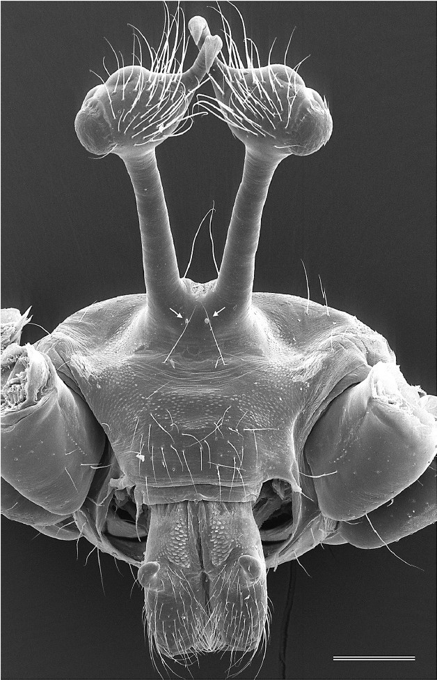 Panjange camiguin male, SEM micrograph. Arrows point at tiny Anterior Median Eye remnants. Scale bars = 200 μm